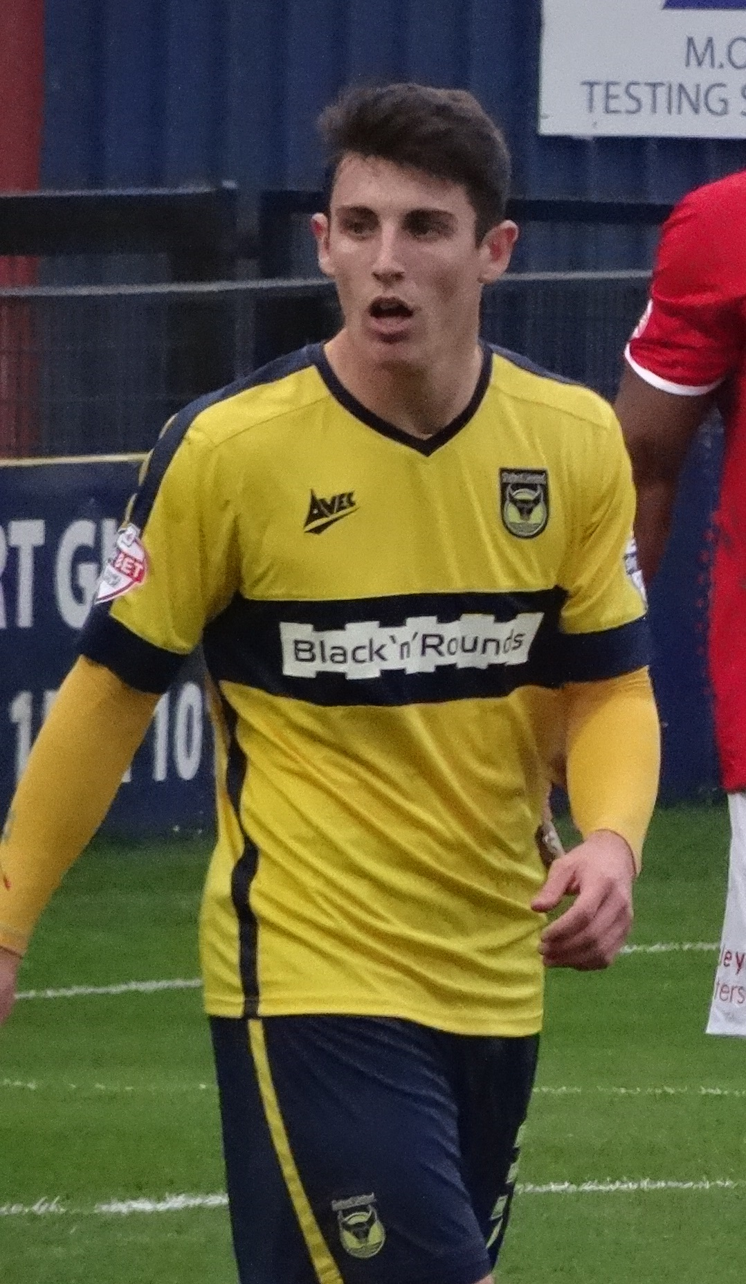 James Roberts playing for Oxford United against York City at Bootham Crescent, York on 15 November 2014